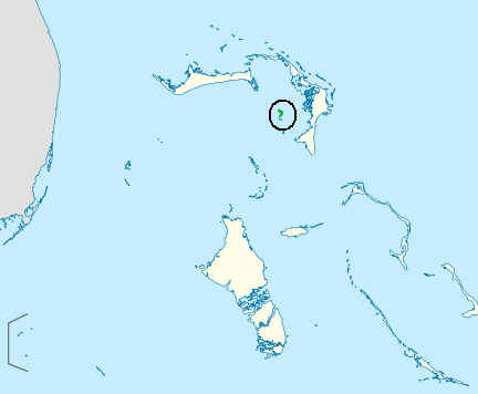 Location map of the Bahamas Equirectangular projection, N/S stretching 105 %. Geographic limits of the map: * N: 27.5° N * S: 20.7° N * W: 80.7° W * E: 70.8° W